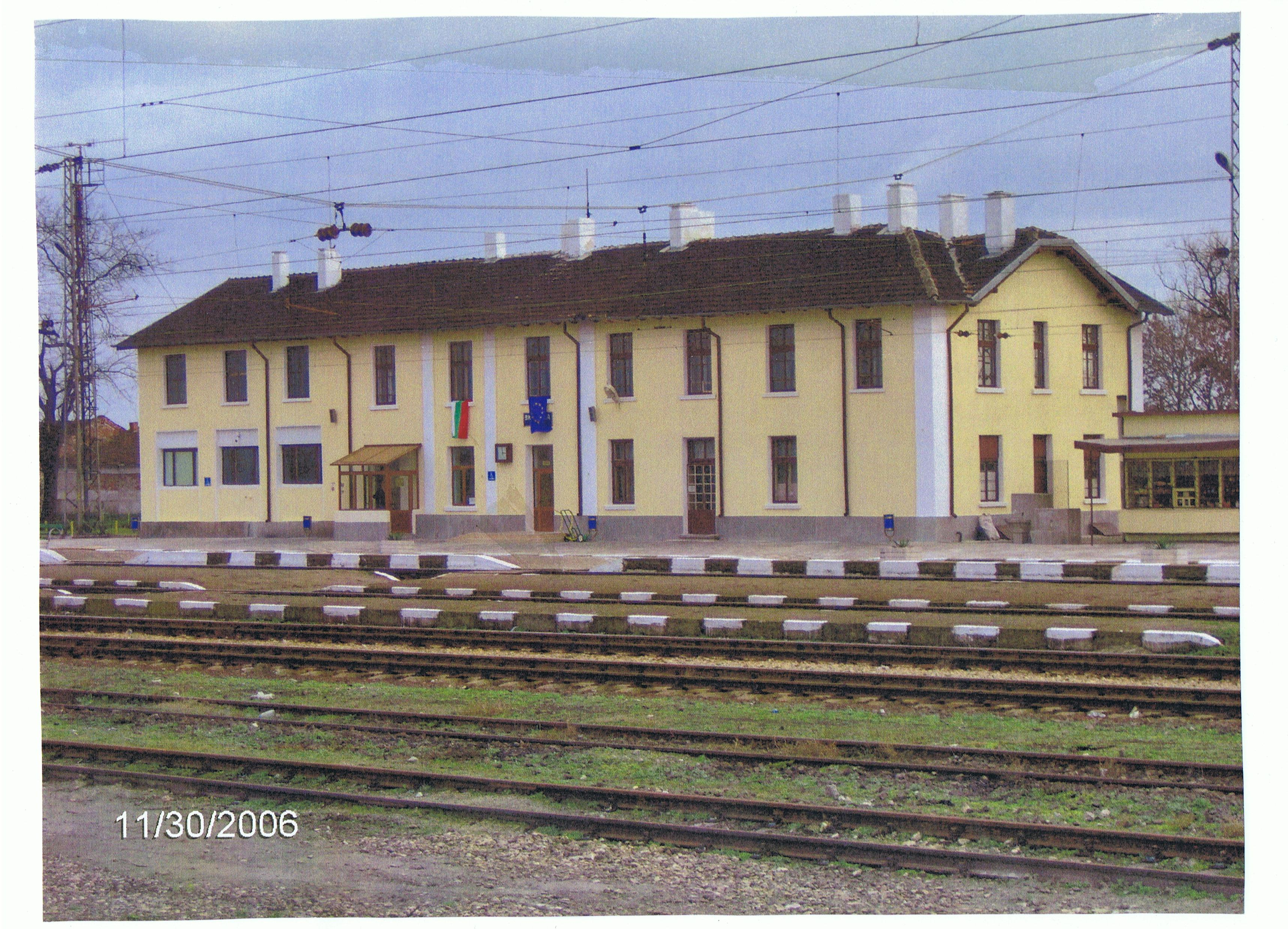 Railway Station Zimnica, Bulgaria